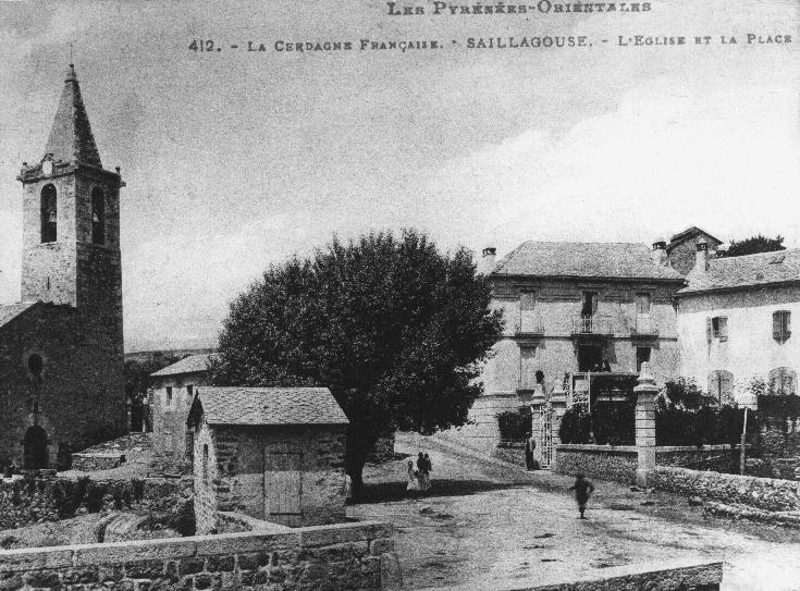 Ancient postcard of Sallagosa, a village in the South of France